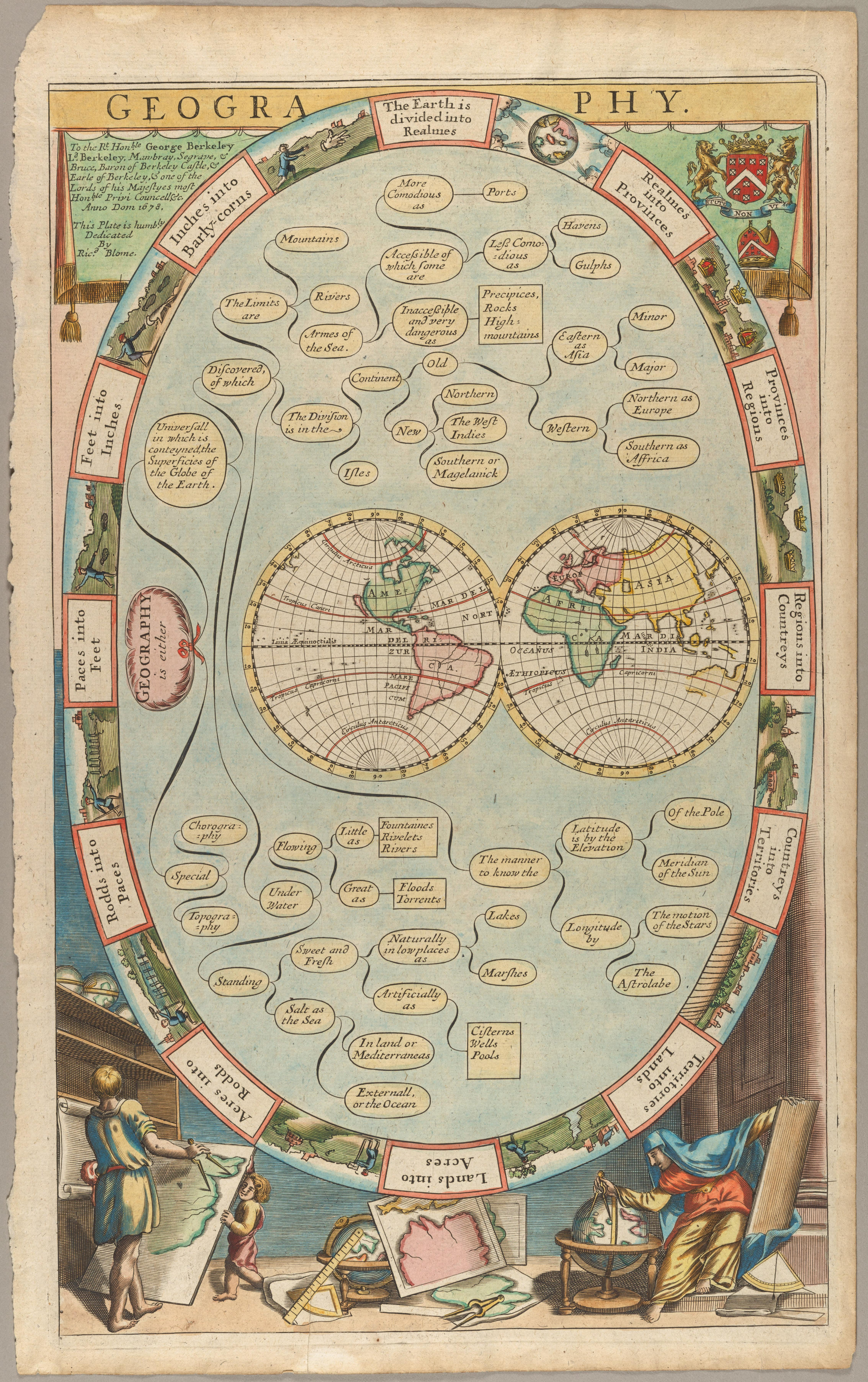 A map of the world in two hemispheres, provided latitude and longitude coordinates. It shows the diverse ways in which geography can be applied.